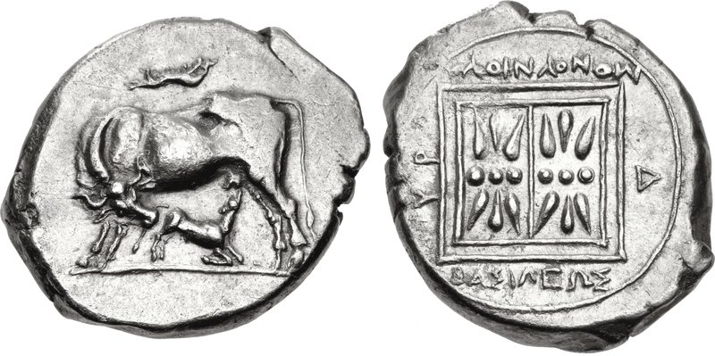 Silver stater of King Monounios, 10.56 gr, Dyrrhachion mint. Cow and suckling calf.Rev. Double stellate pattern, inscription ΒΑΣΙΛΕΩΣ ΜΟΝΟΥΝΙΟΥ (of king Monounios).